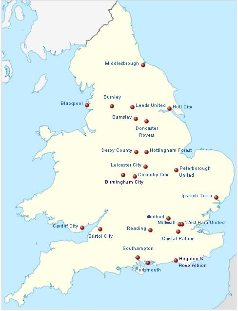 Engelske fotball lag i Championship 2011-12